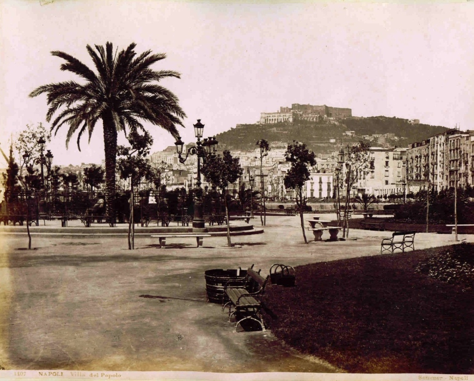 Giorgio Sommer (1834-1914), "Naples - Public gardens". Catalogue # 1107 (bis).